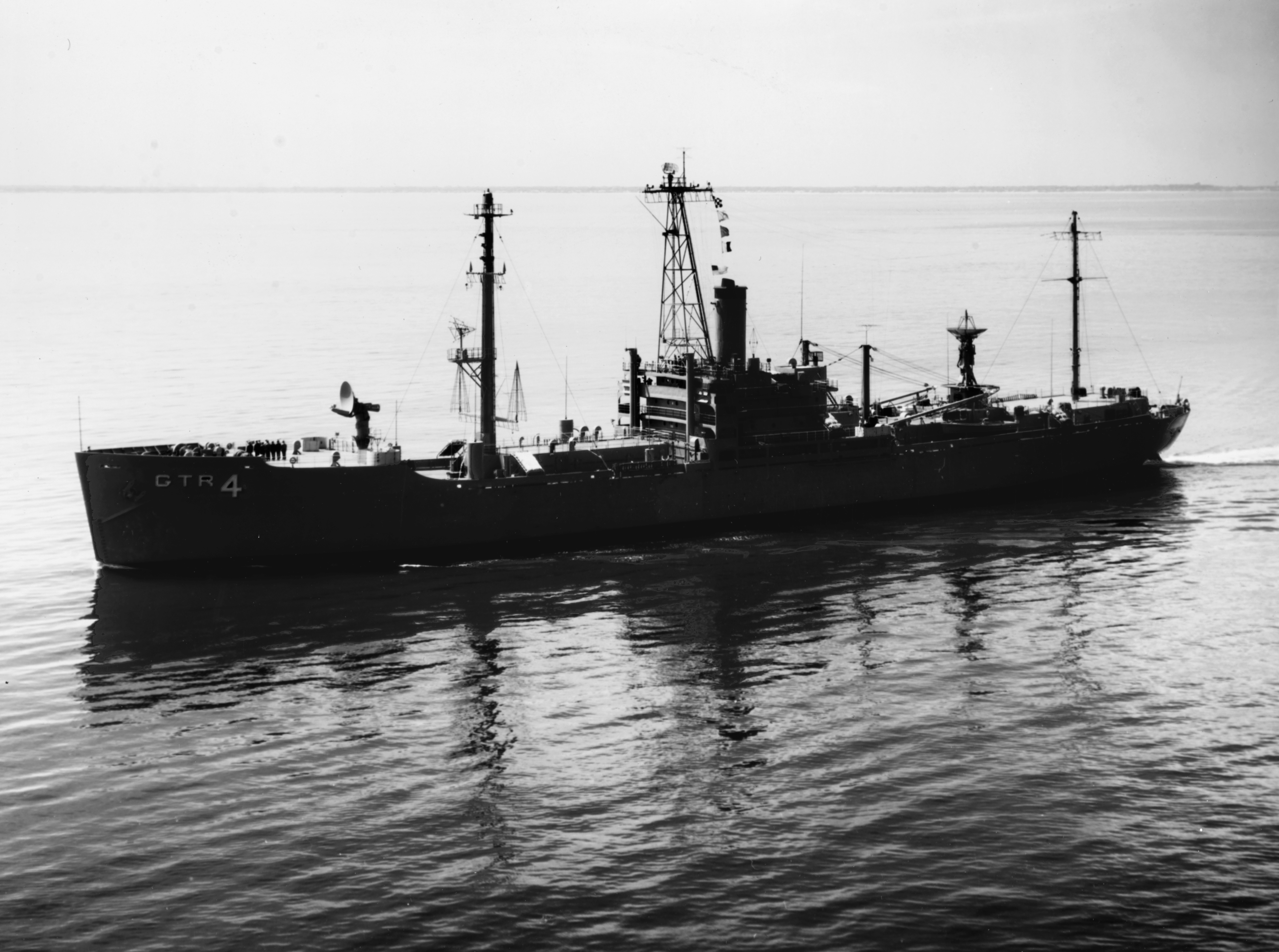 The U.S. Navy signals intelligence ship USS Belmont (AGTR-4) during the later 1960s.